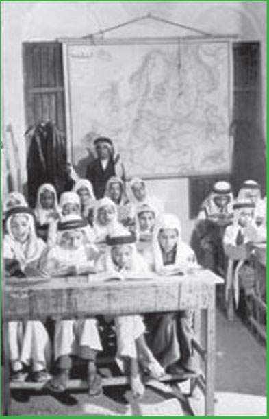 التعليم في عصر محمد علي